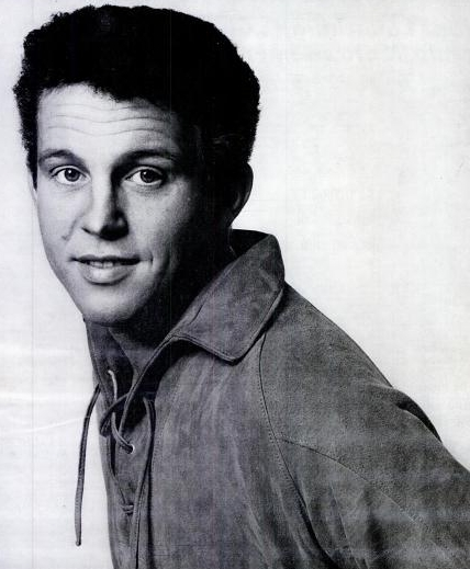 Photo of singer Bobby Vinton in 1965